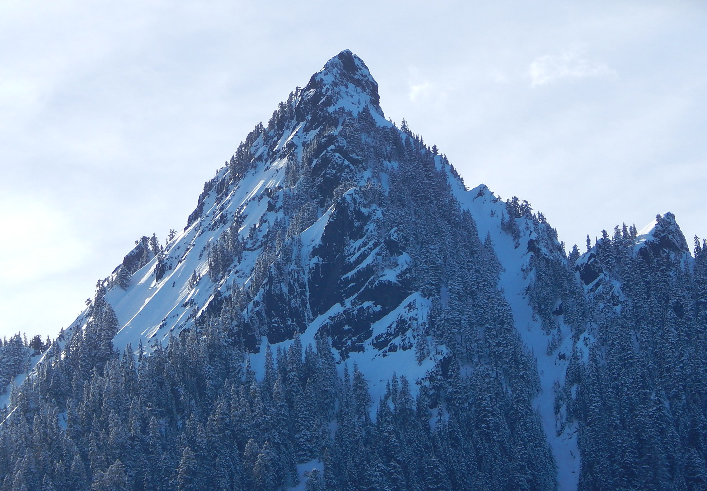 McClellan Butte seen from Interstate 90